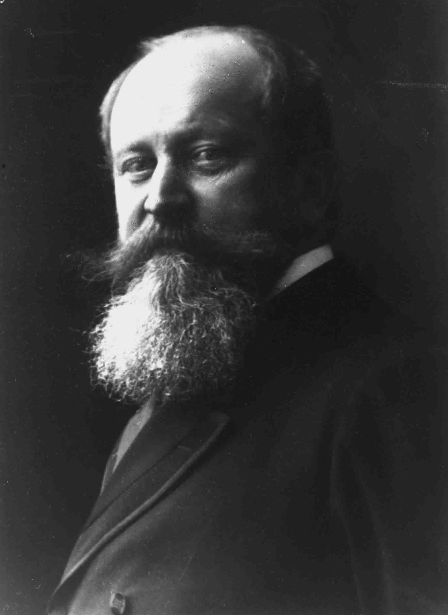 Julius von Soden (1846-1921), German colonial official and politician